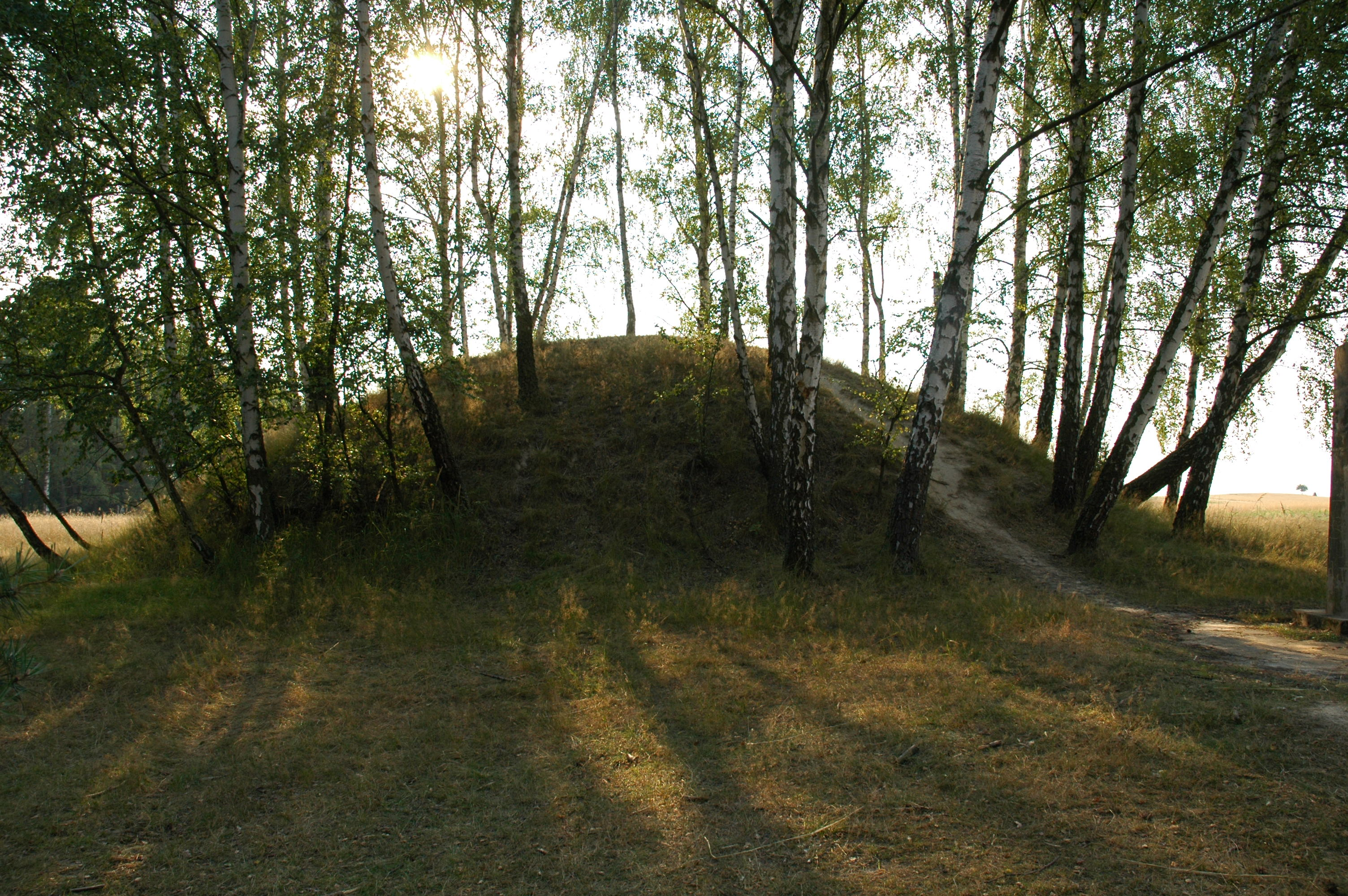 Tumulus I in Przywóz